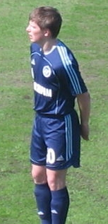 Andrei Arshavin. 2006 Russian Premier League (FC Zenit St.Petersburg v.s. FC Spartak Moscow)